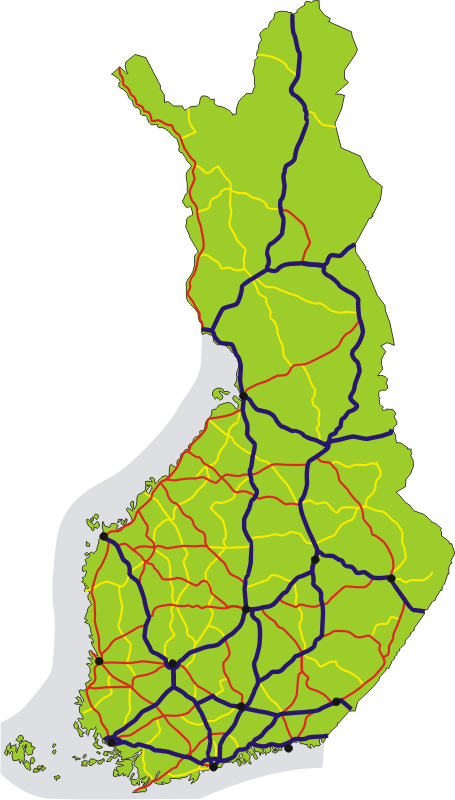 Map of the TERN roads in Finland, shown in dark blue. National roads number 1–29 are red, 40–98 are yellow. Black dots show the 12 major urban areas.